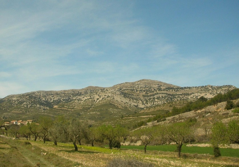 Tossal de la Nevera. 1,282 m high mountain located close to Catí in the Alt Maestrat, Valencian community.